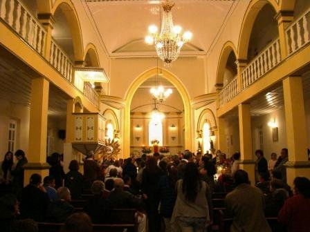 Inside Rosario's church